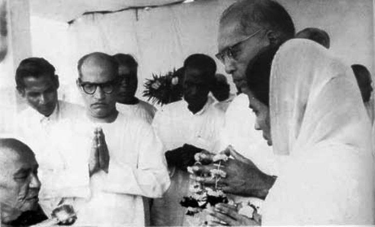 Dr. Babasaheb Ambedkar (2nd from right side) accepting Dhamma Deeksha - Buddhism from Mahasthavir Chandramani along with Wali Sinha, Rewaramji Kawade and wife Maisaheb (1st from right side) on October 14, 1956